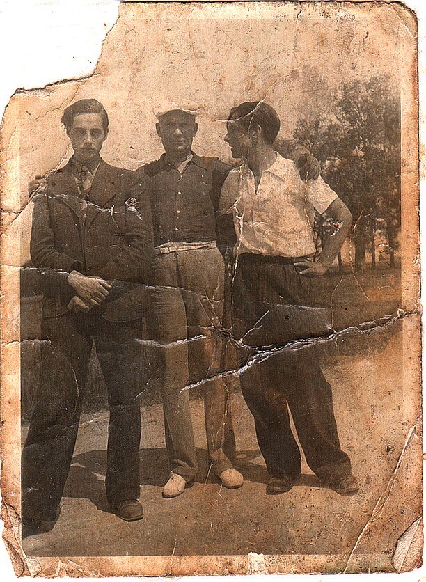 From left: Augustinas Savickas (1919–2012), the Lithuanian diplomat Jurgis Savickis (1890–1952) and Algirdas Savickis (1917–1943)